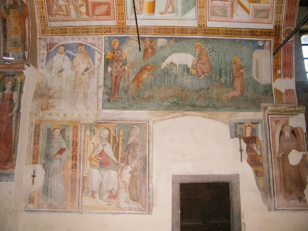 Frescos. Church of St. Lawrence. Berzo Inferiore, Val Camonica